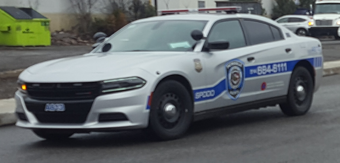 Dodge Charger Dollard-Des-Ormeaux photographed in Pointe-Claire , Québec, Canada .